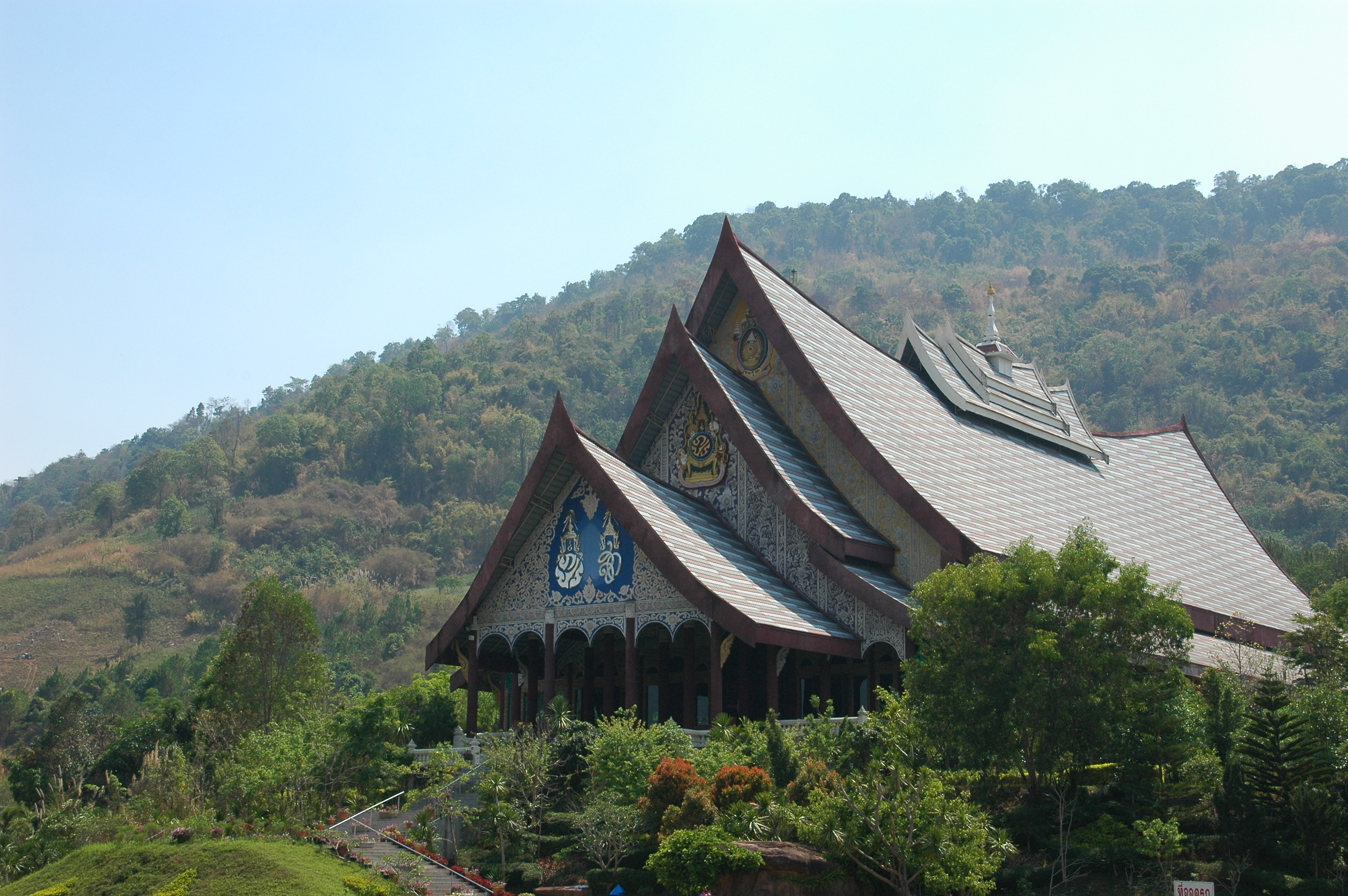 Big Sala of Wat Pa Hay Lad in Santom, Phu Ruea, Loei Province, Thailand.